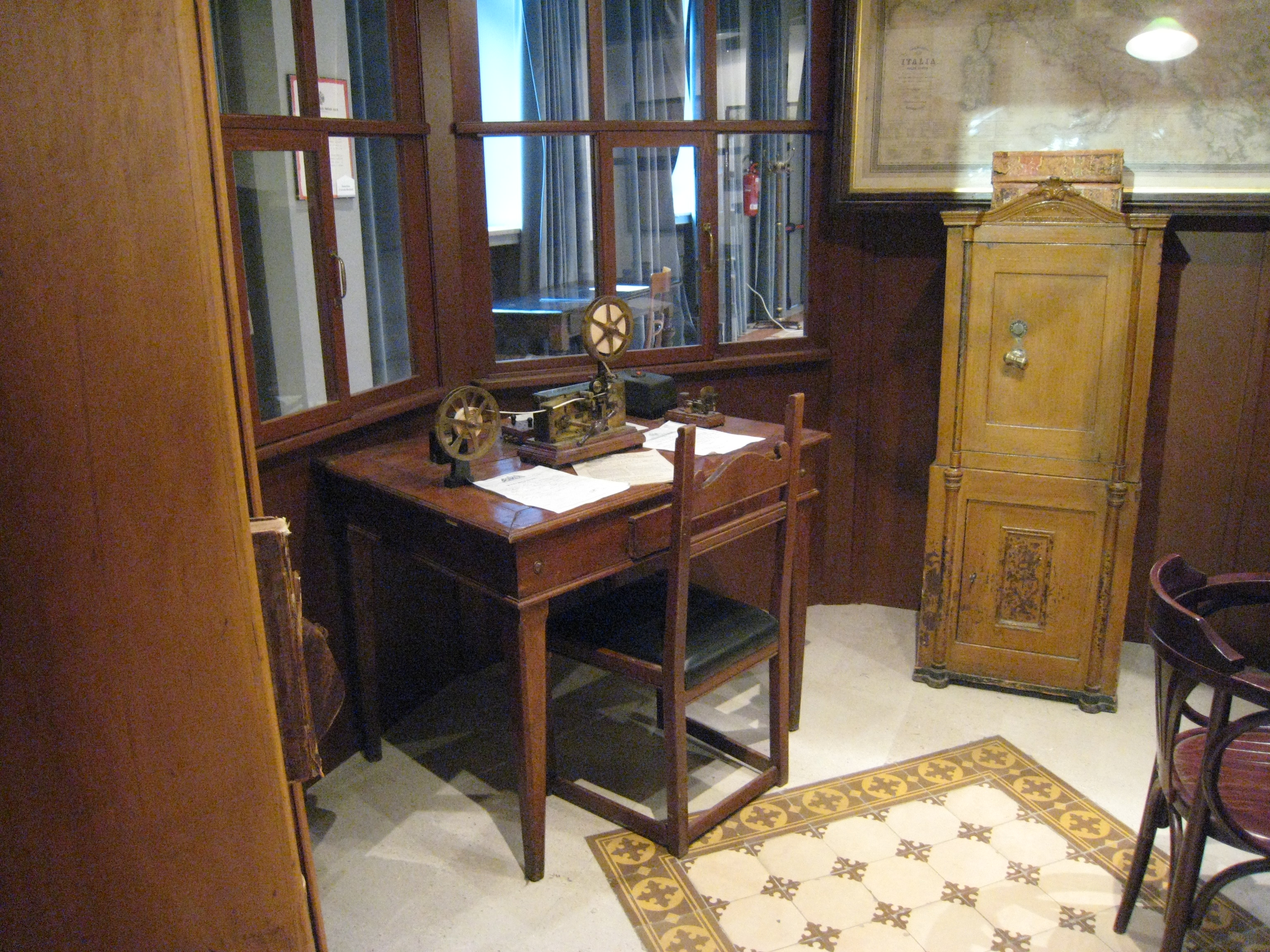 Italy - Trieste - Museo Postale e Telegrafico della Mitteleuropa